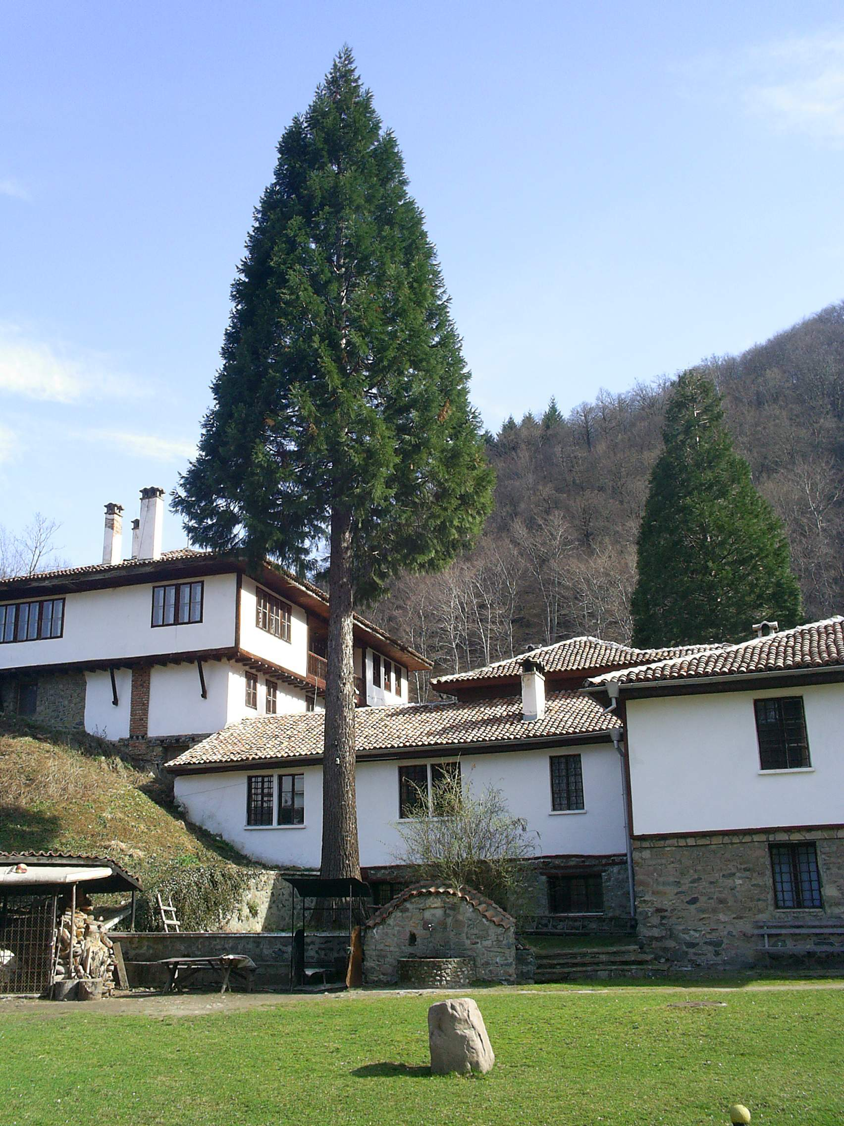 Monastery "The Seven Throns"; © 2006 Svilen Enev